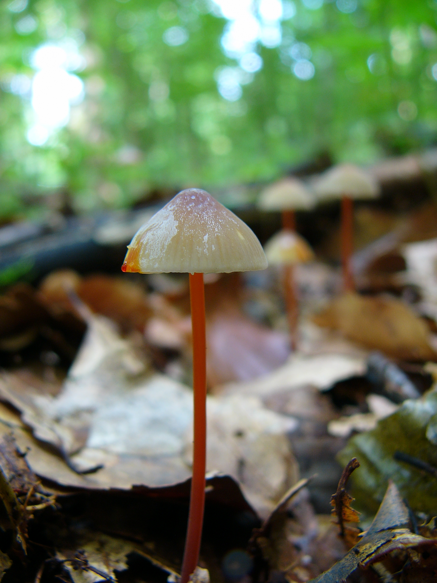 The making of this document was supported by the Community-Budget of Wikimedia Germany.